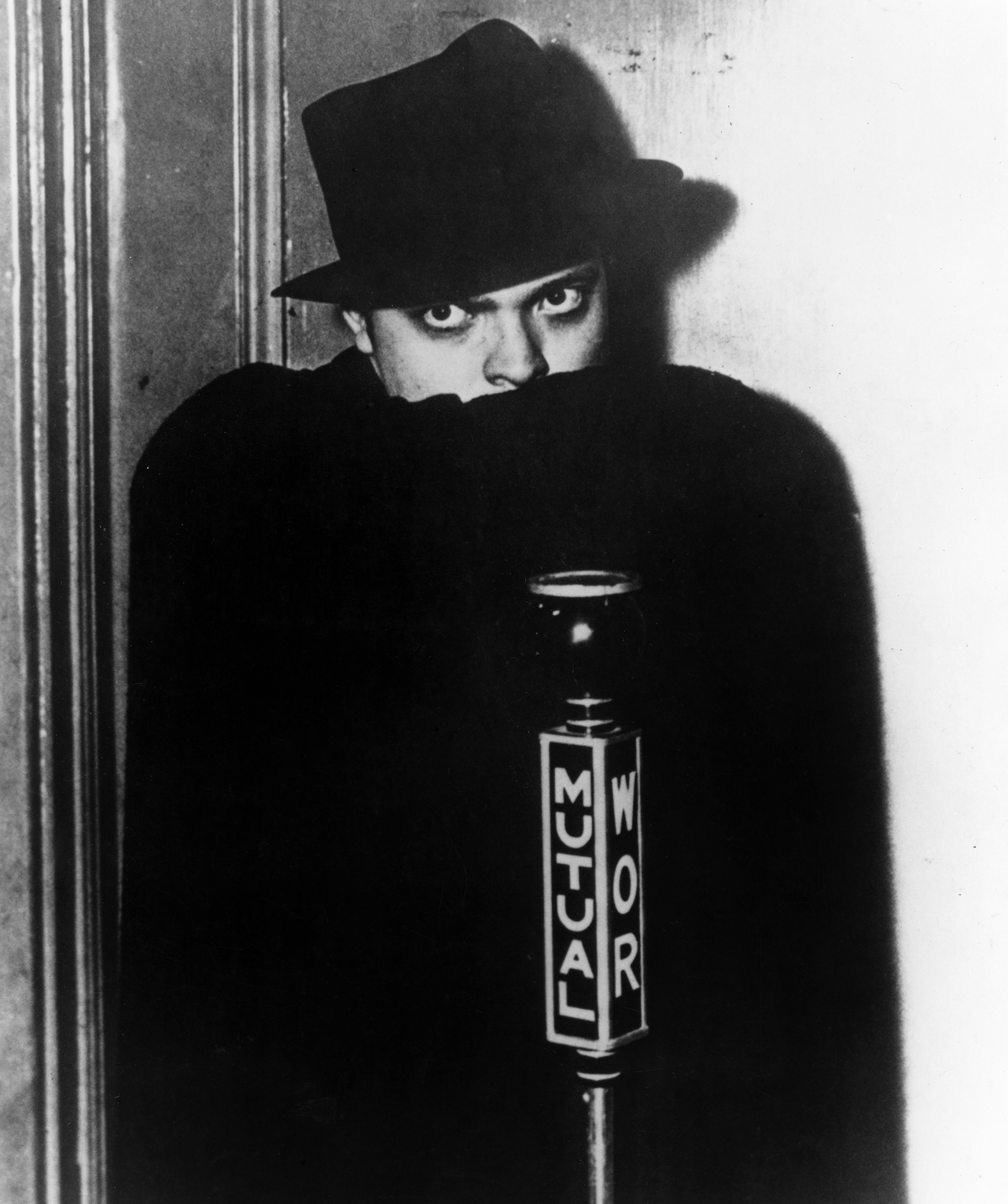 Description: Low-resolution reproduction of promotional photograph for the The Shadow radio series, featuring star Orson Welles, 1937 or 1938 Corporate author: Mutual Broadcasting System Source: Radio Archives Public domain explanation The image was created to be freely distributed for the express purpose of promoting the commercial radio series whose star it depicts. There is no evidence that copyright notice was originally filed on the image, as then required for protection. A search of copyright renewal records for 1964 through 1966 ([1], [2], [3], [4], [5], [6]) reveals no evidence that Mutual Broadcasting System renewed copyrights to this image or any collection of images or any collection of material that might encompass this image as would have been required to maintain copyright protection, if any. There is no evidence that CBS Corporation, the corporate heir to Mutual Broadcasting System, claims copyright on the image.